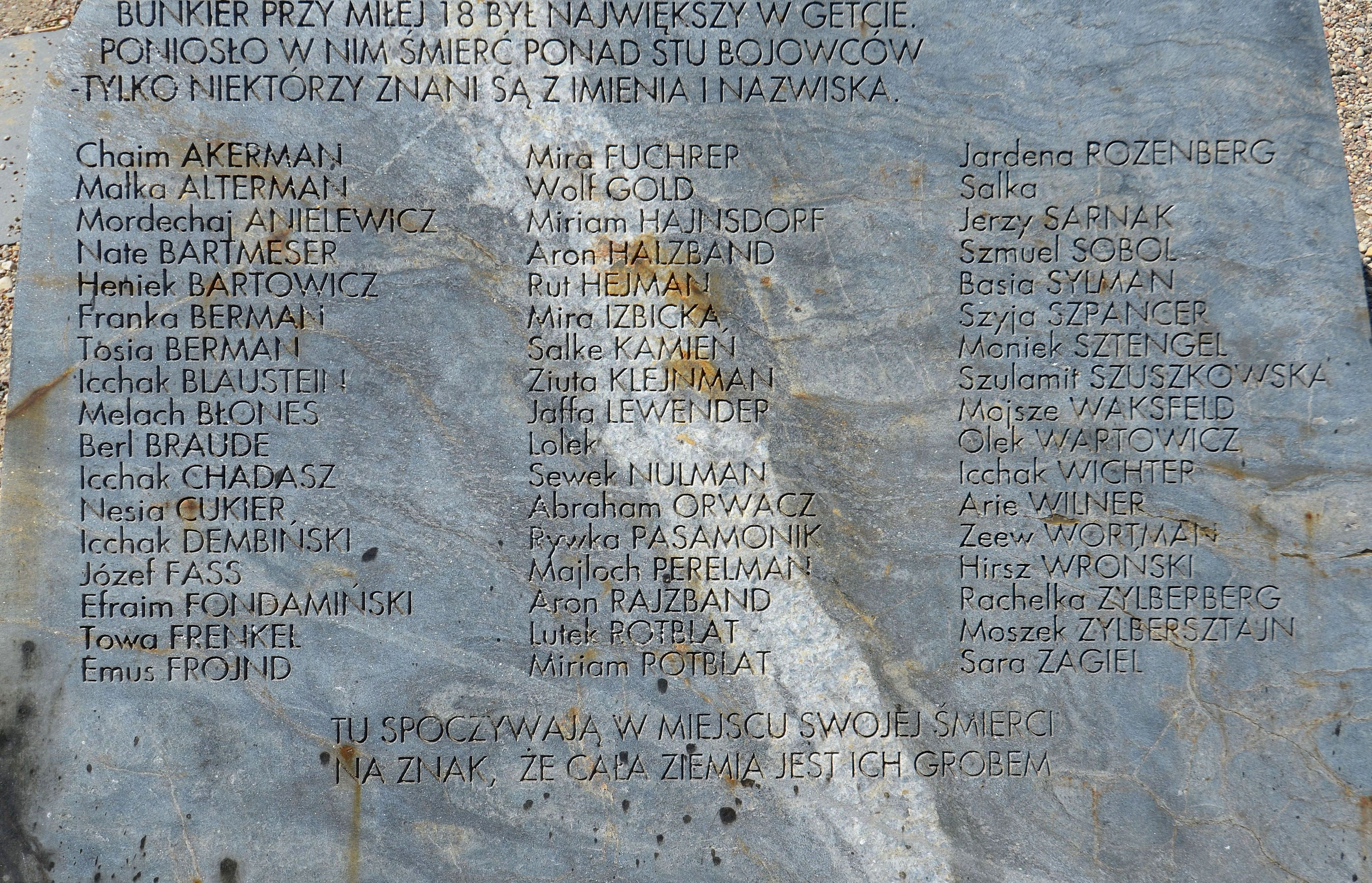 List of the names of Jewish fighters engraved on the obelisk at the foot of the Anieleewicz Mound (Miła 18)